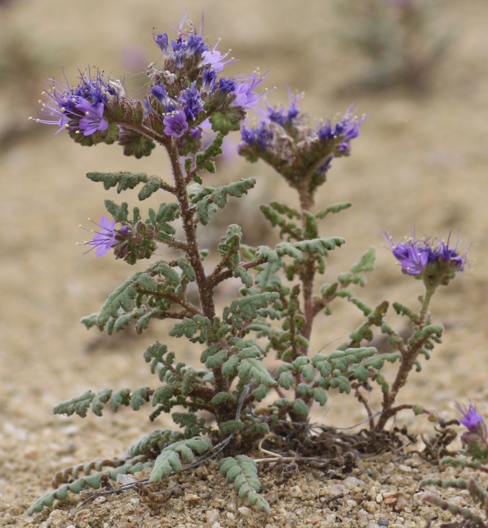 Phacelia formosula (North Park phacelia)